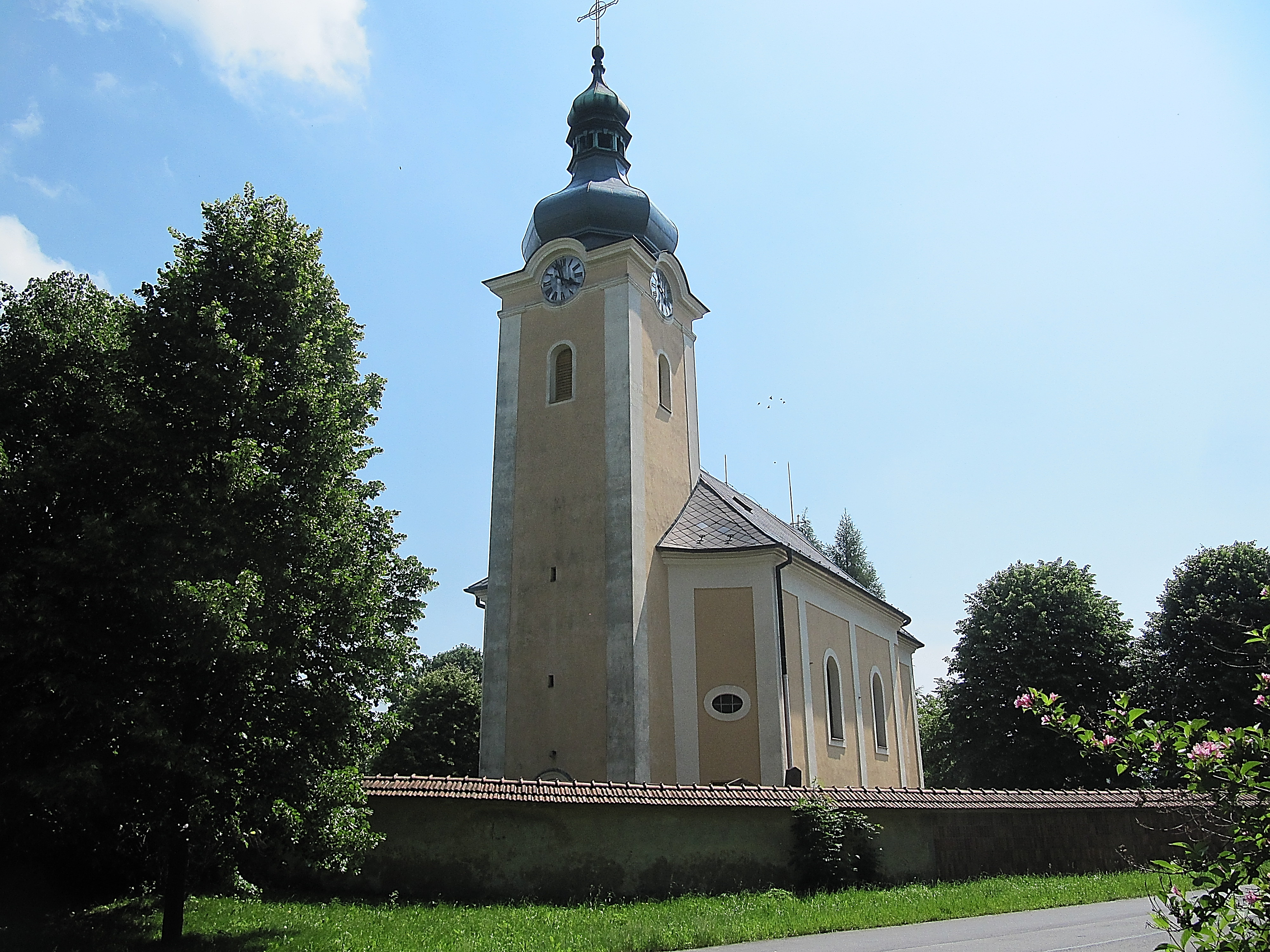 Fulnek, Nový Jičín District, Czech Republic, part Stachovice. Church of St. Catherine.